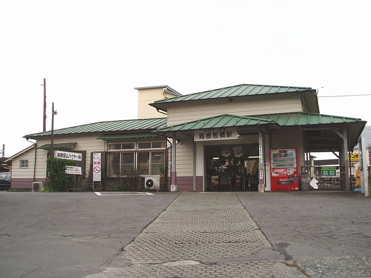 Hakone Itabashi Sta.